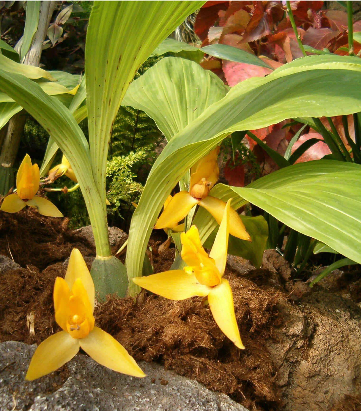 Lycaste cruenta, Habitus and Flowers Location: Botanical Gardens Berlin - Orchid Exhibition